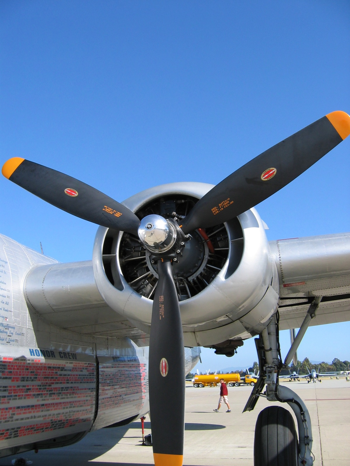 The number two engine on a B-24 Liberator. Taken from ramp at Moffett field.